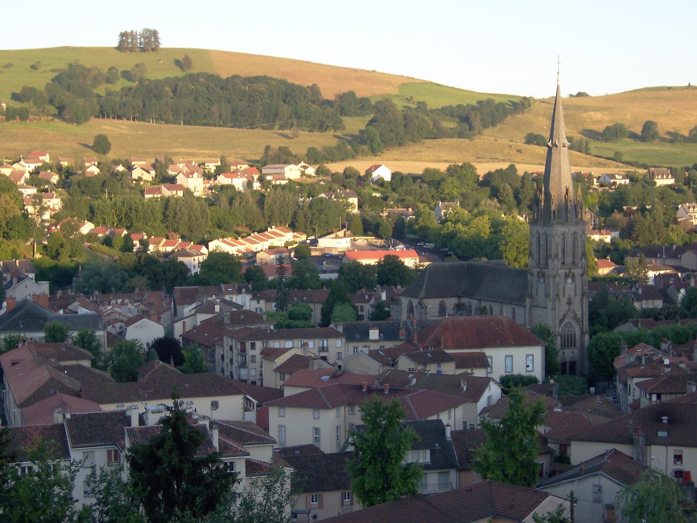 The quarter and the church Saint-Géraud, Aurillac (Cantal)